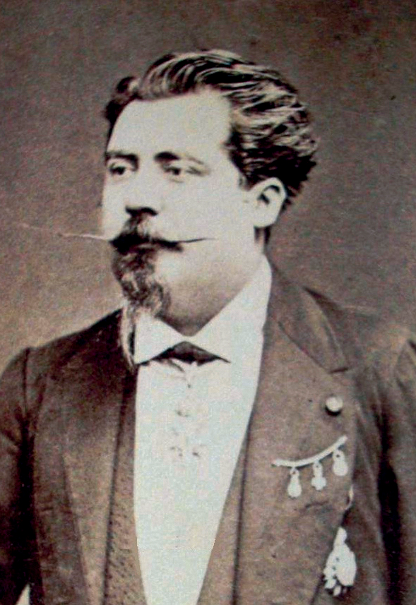 Achilles I, King of Araucania and Patagonia